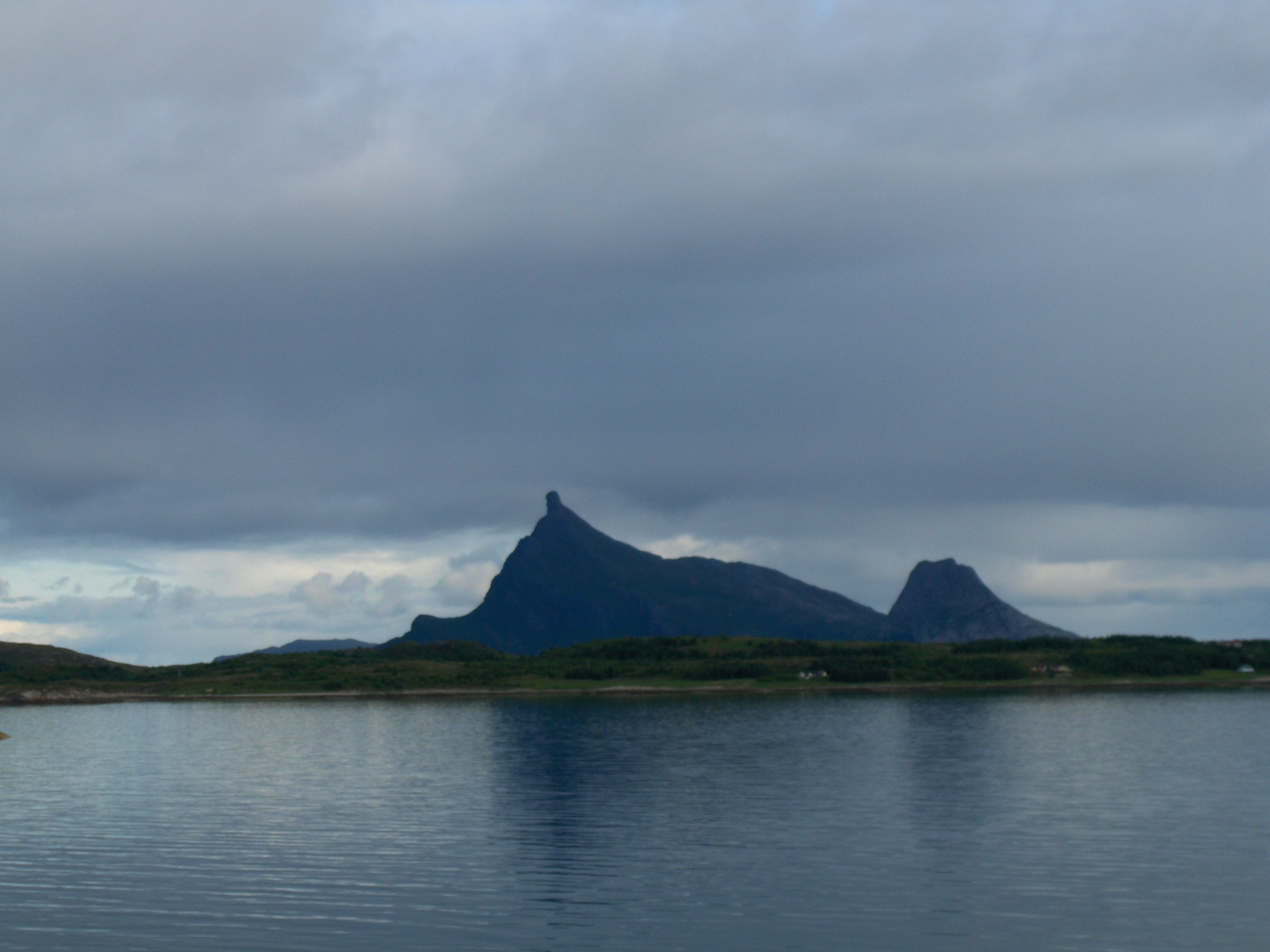 Hestmannøy (Horseman Island) in Helgeland, Norway. The horseman (568 meters over the surface) shows you are close to the Arctic Circle. The legend about the stoned horseman tells he shout an arrow after Lekamøya and he forgot everything about the forthcoming sunset and he get stoned because he was all fired up by the love.